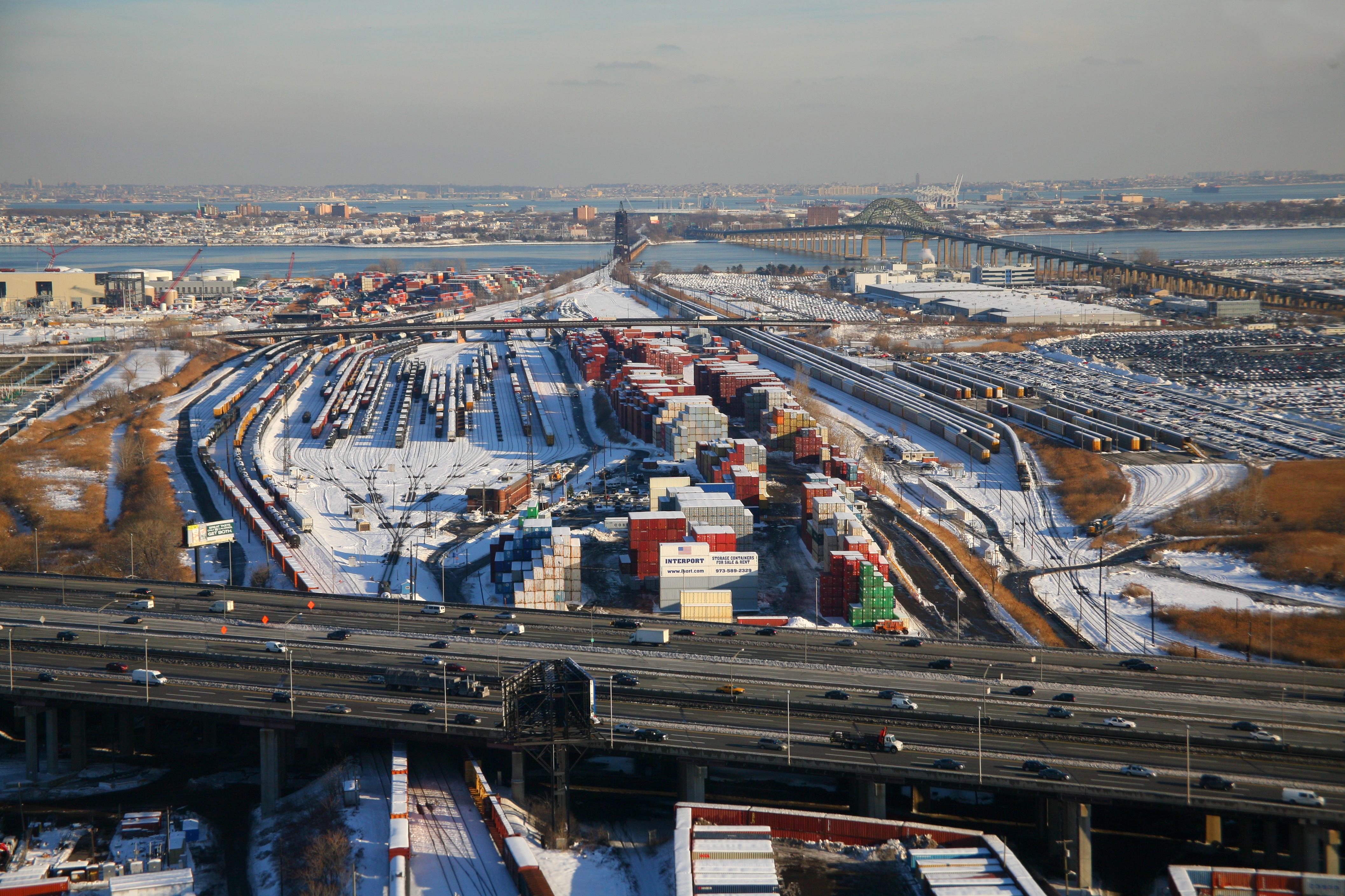 Oak Island Yard in Newark, New Jersey. The Upper Bay Bridge carries trains over the Newark Bay (background). New Jersey Turnpike (foreground) and Turnpike Extension Newark Bay Bridge (right background)